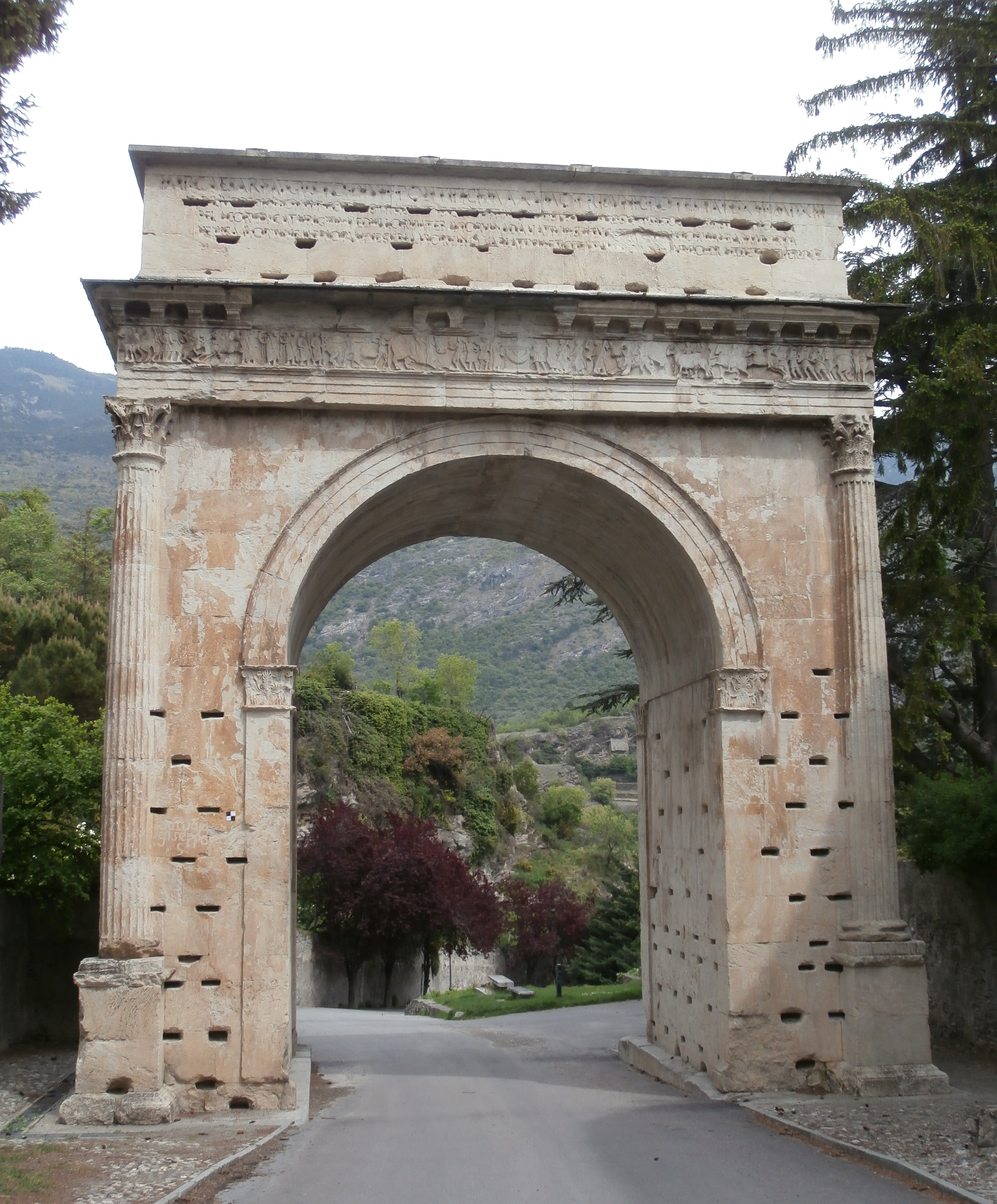 This is the Augustan Arch, in the town of Susa, Piedmont, Italy. It was constructed in the years 8 to 9 BC.